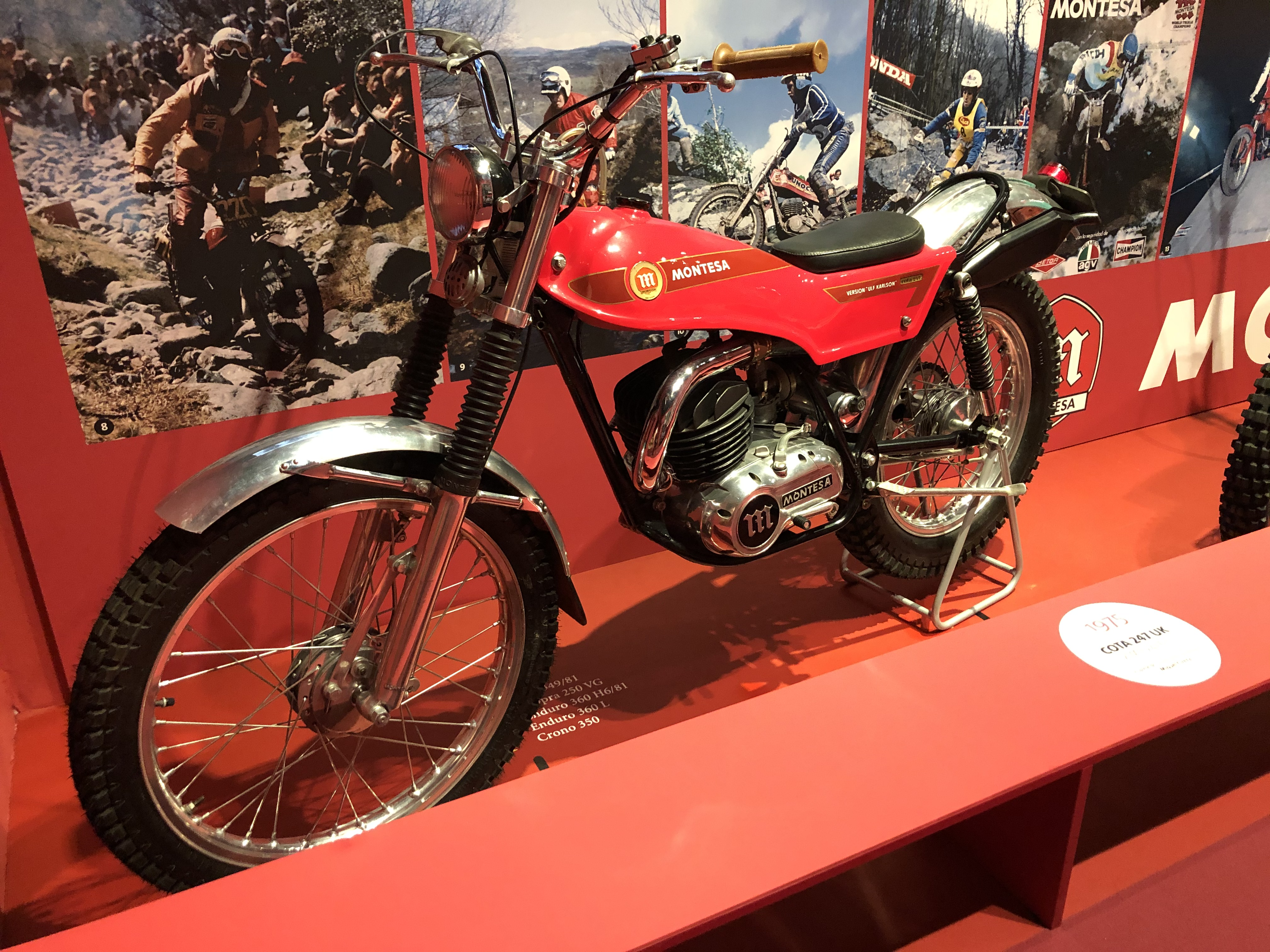 Montesa Cota 247 VUK (1975), Mod. 21M, 247.6 cc